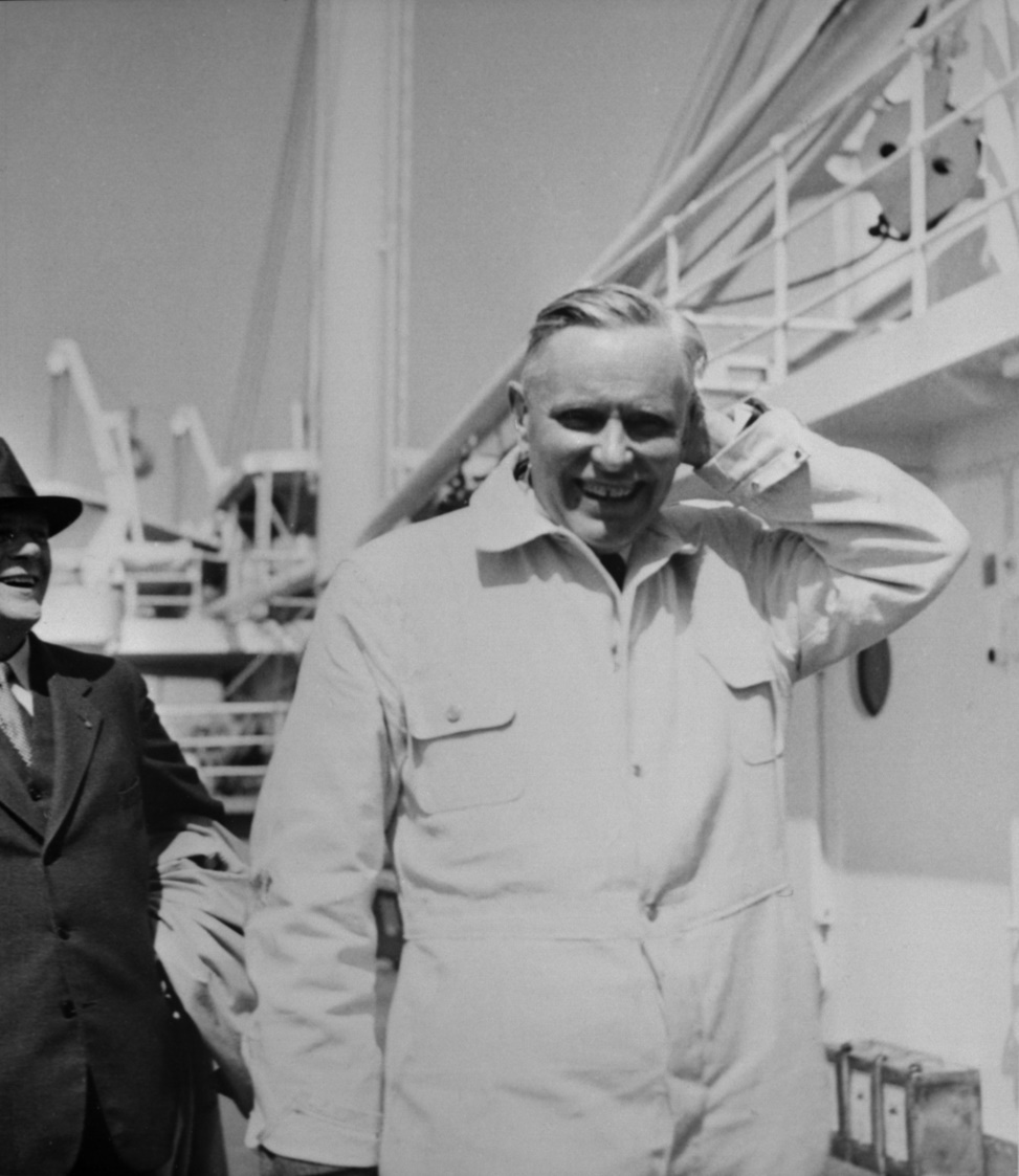 Rear admiral Erik Wetter